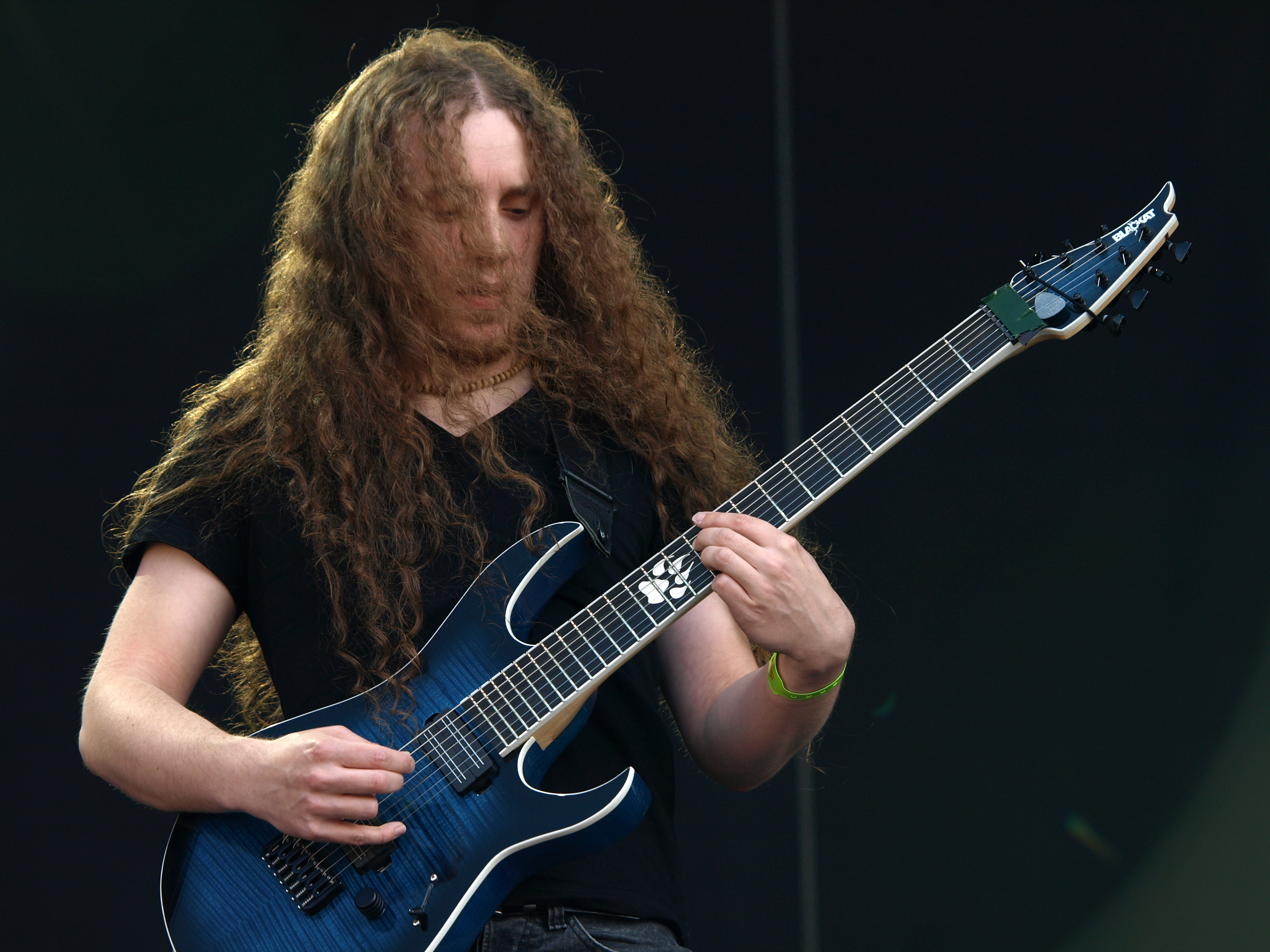 British band TesseractT live at Tuska Open Air 2013